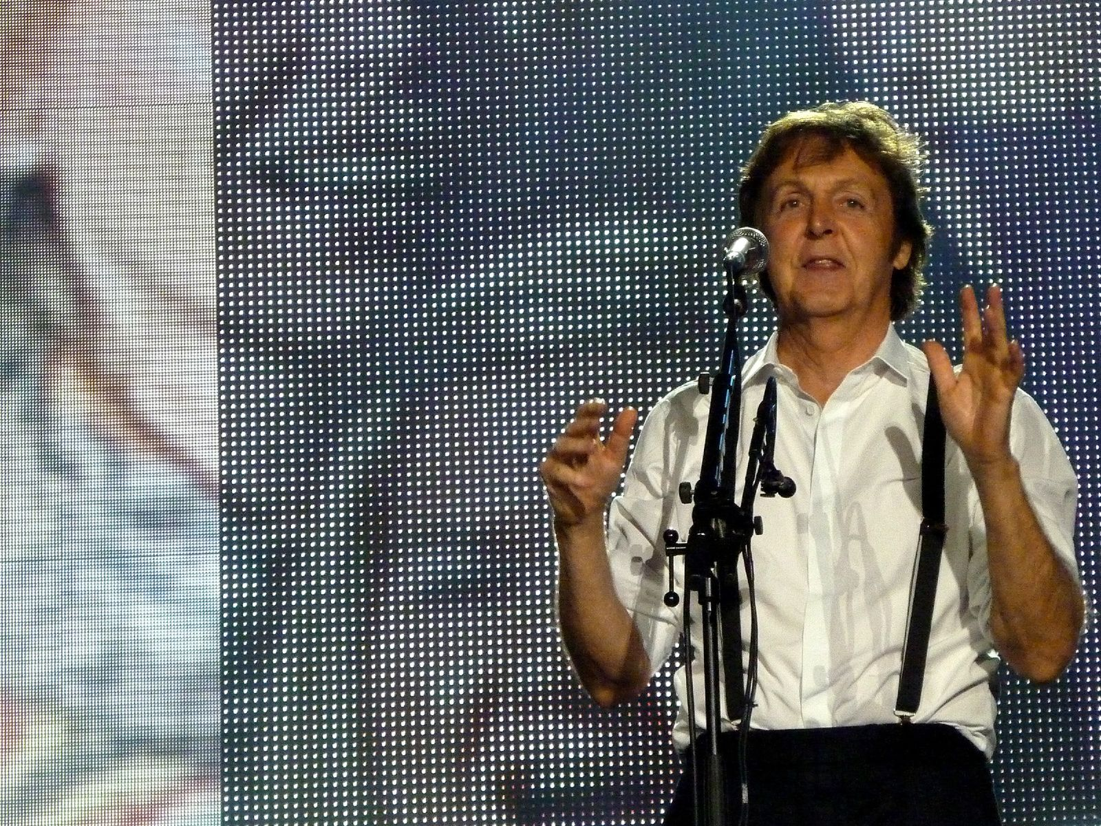 Paul McCartney performing in Dublin.